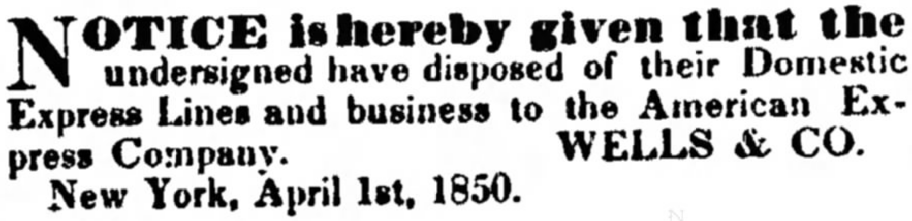 The advertisement about the founding of American Express. The content in this advertisement was: "Notice is hereby given that the undersigned have disposed of their Domestic Express Lines and business to the American Express Company. WELLS & CO. New York, April 1st, 1850."